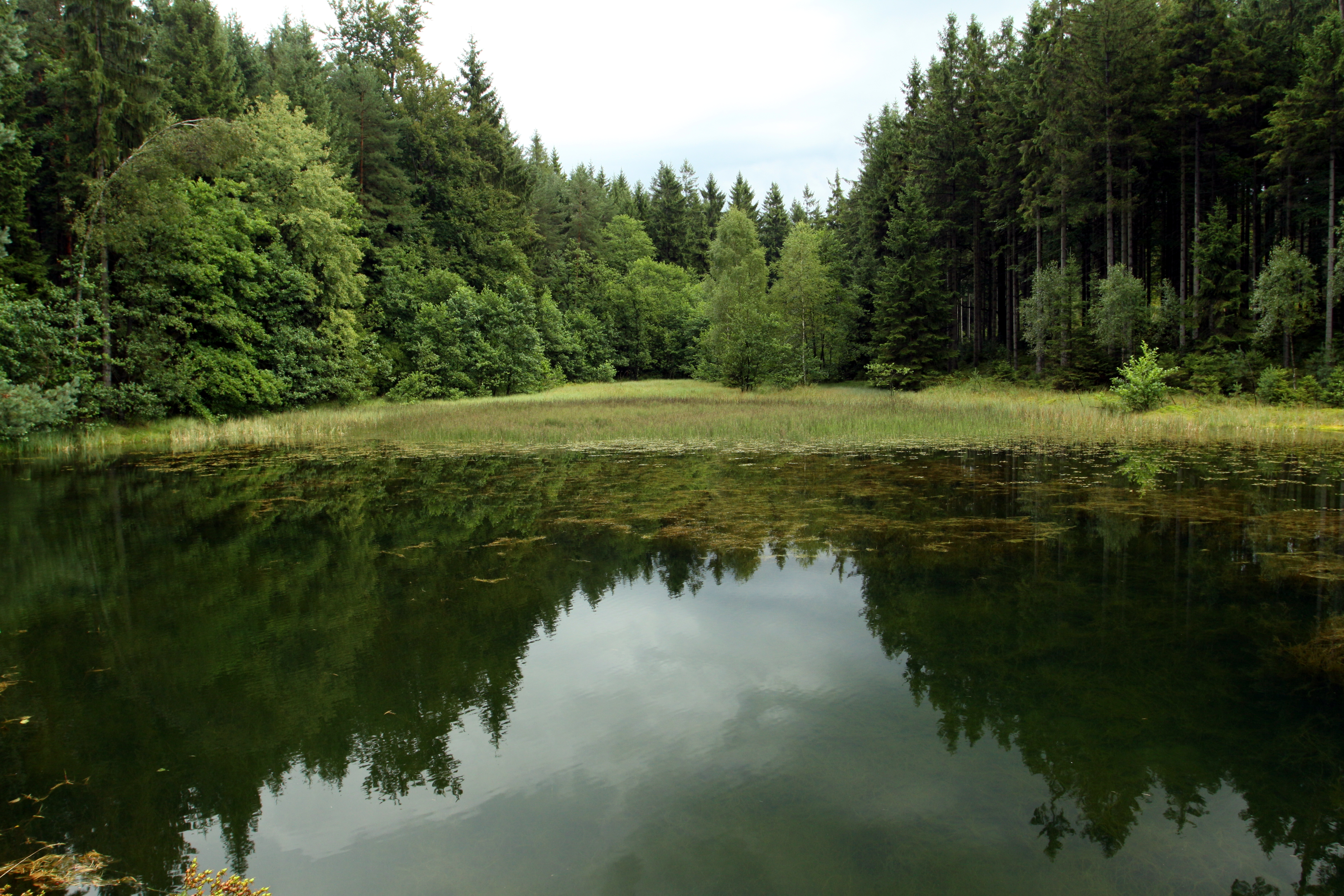 Natural monument Rybník u Králova mlýna close to town Děčín in Děčín District, Czech Republic